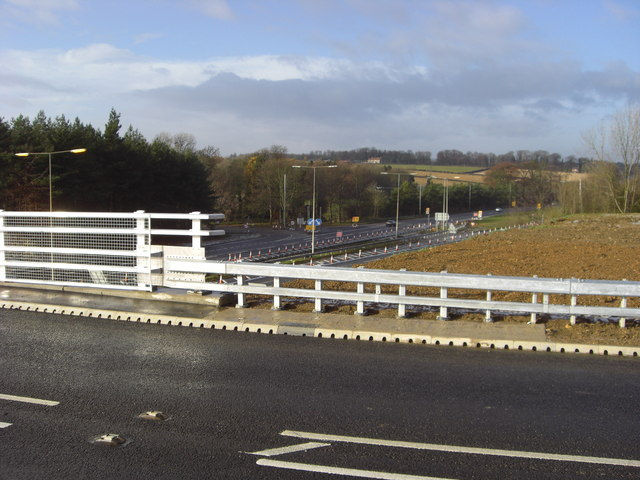 New B6403 Flyover Bridge & A1 Now open to traffic.